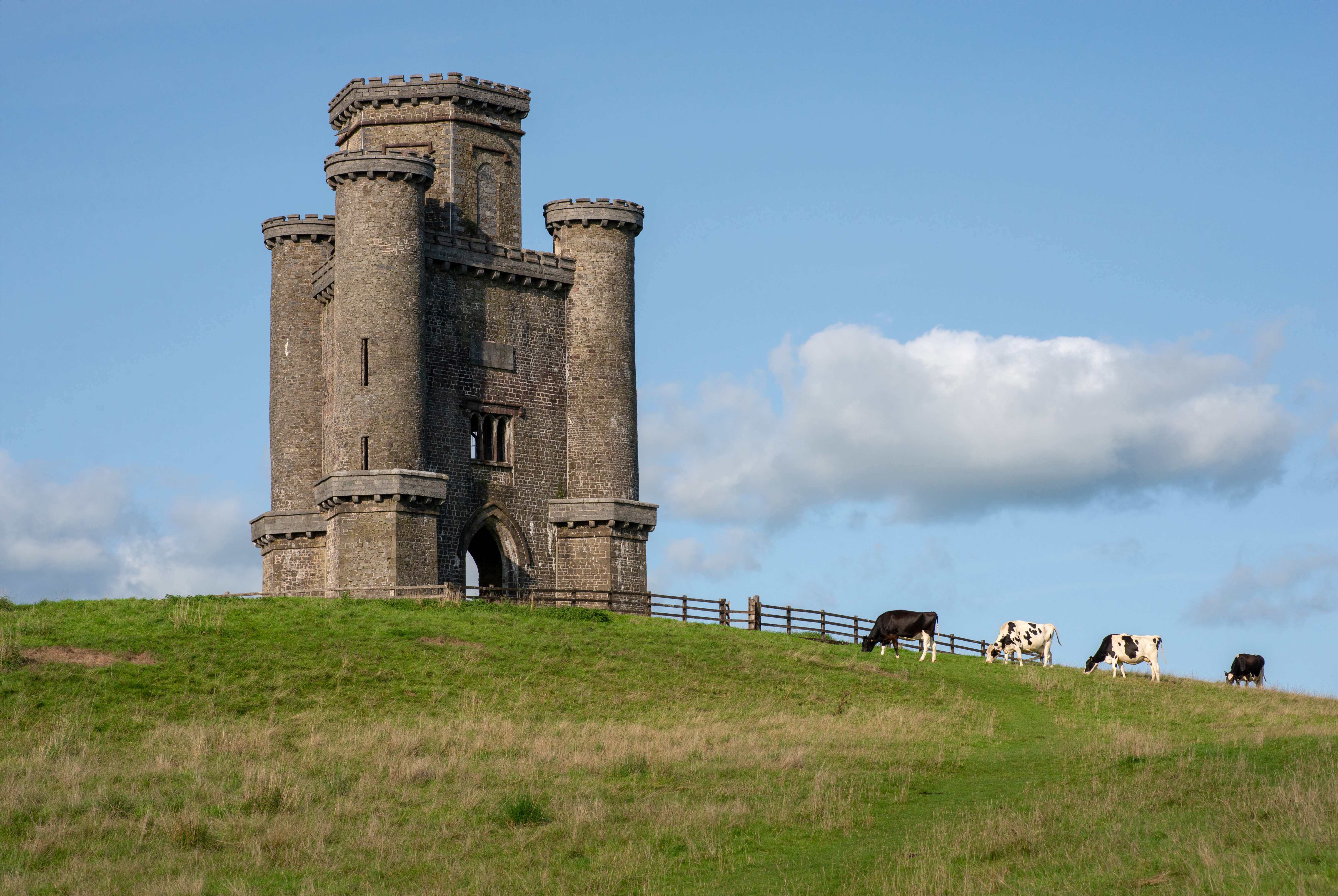 Paxton's Tower Wikidata has entry Q15265749 with data related to this item.